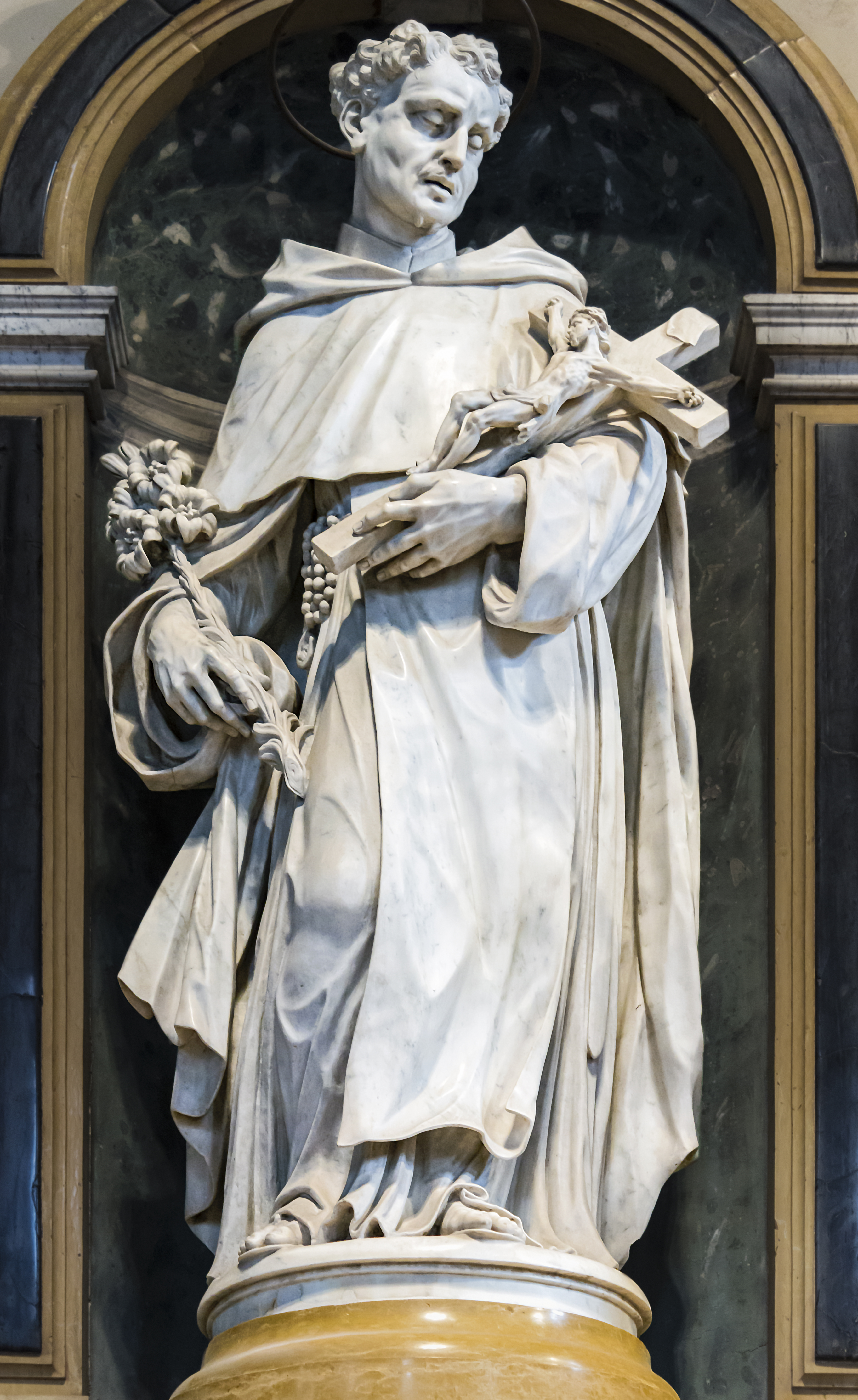 Church of Santa Maria dei Servi, Padua - altar dell'Addolorata - Philip Benizi de Damiani by the sculptor Rinaldino di Francia.